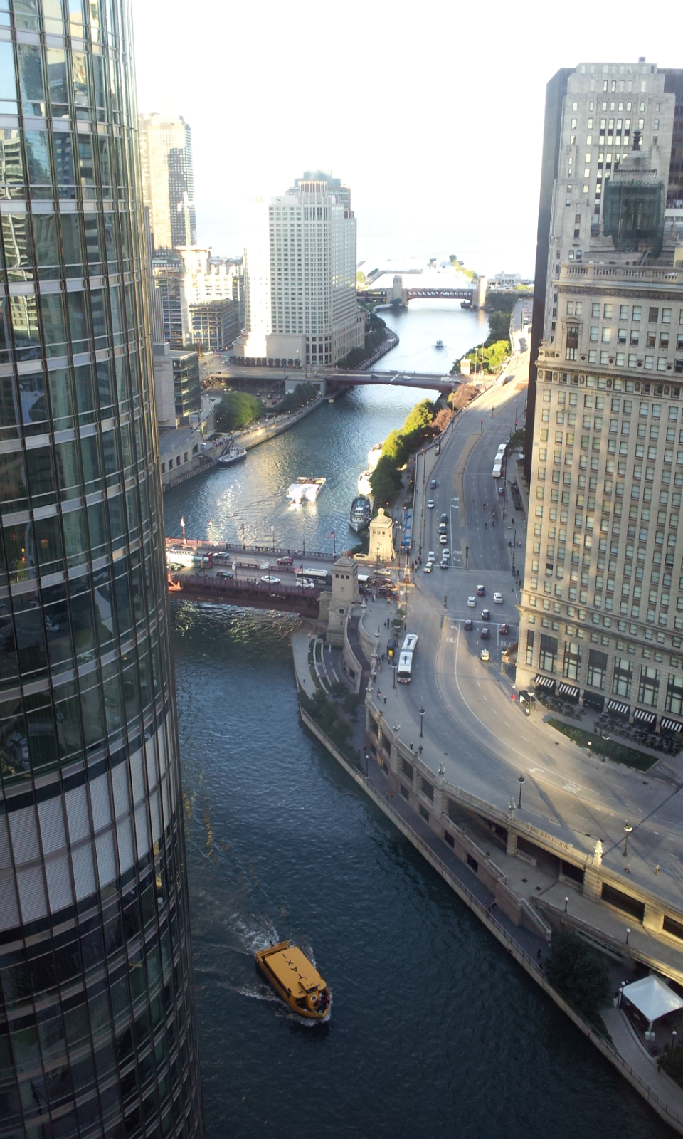 Looking east on the Chicago River from Wabash. Image appears to be taken from within the Langham Chicago